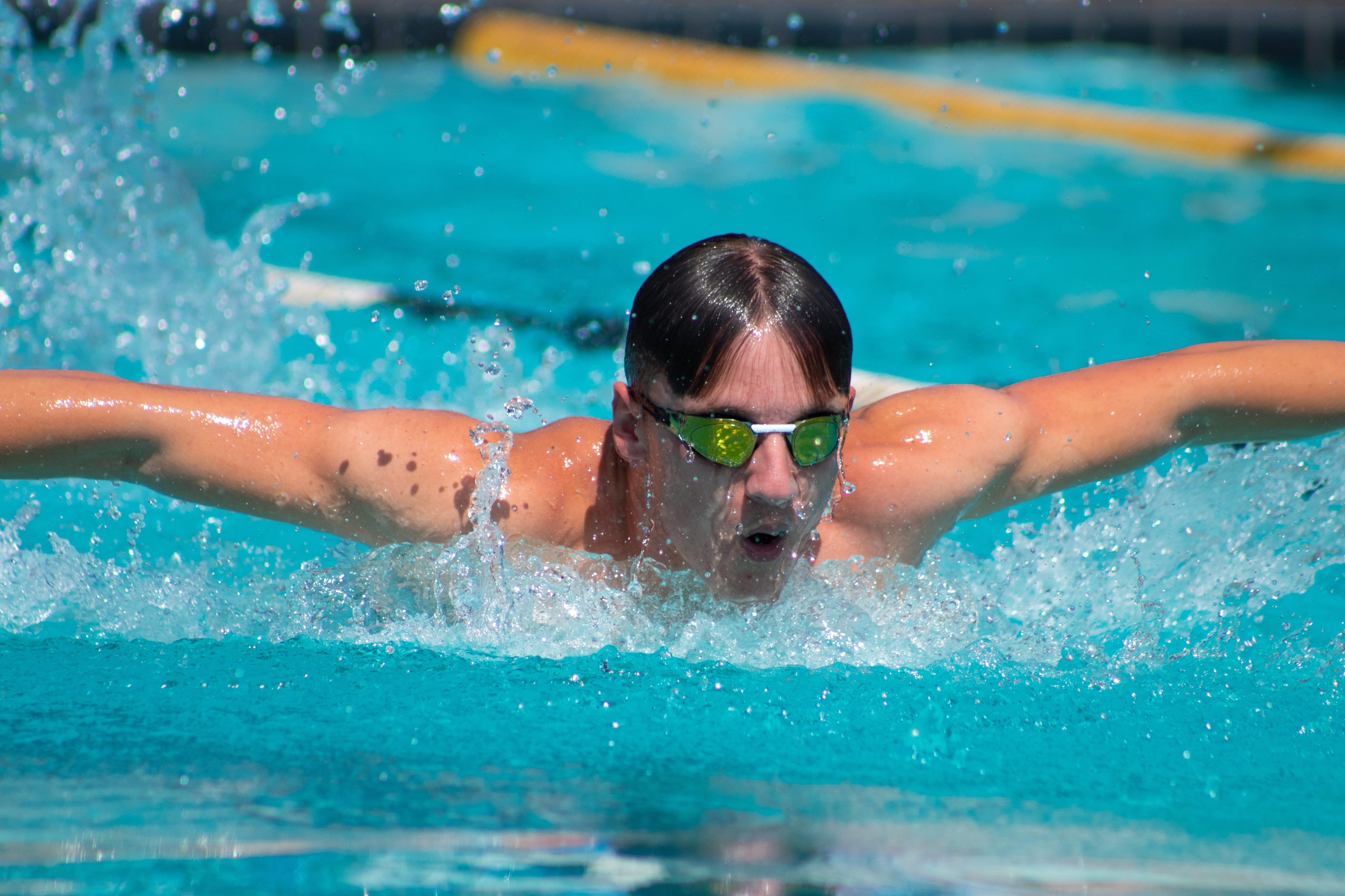 Gala January of 2020